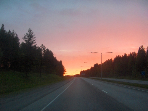 Road on North Karelia region. Road system of Finland is in a good condition and is kept fully open during the winter.